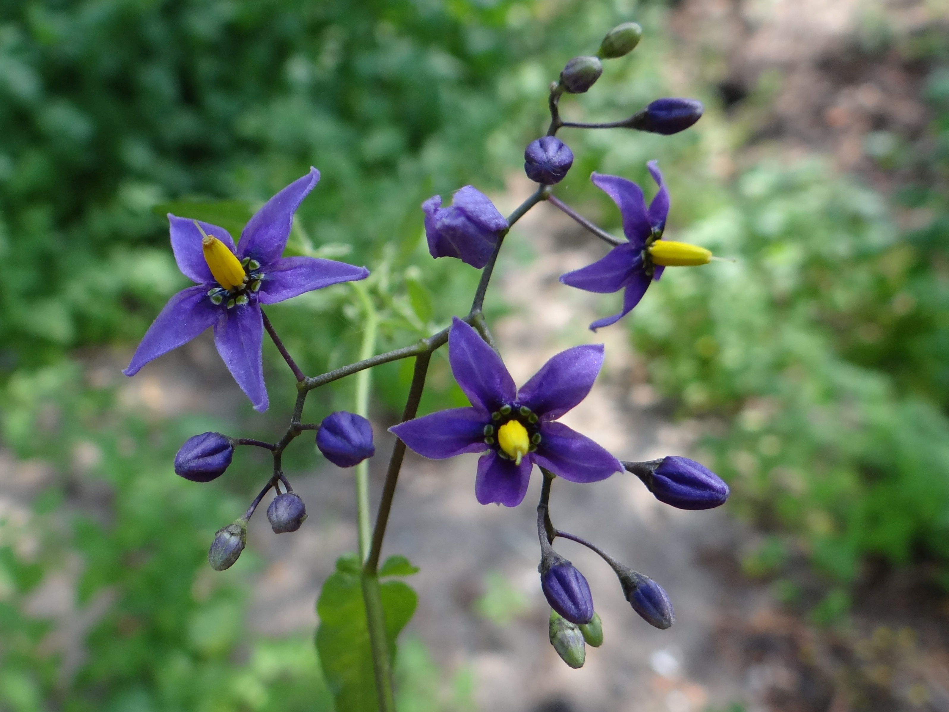 Solanum dulcamara (location: Poland, półwysep Hel)